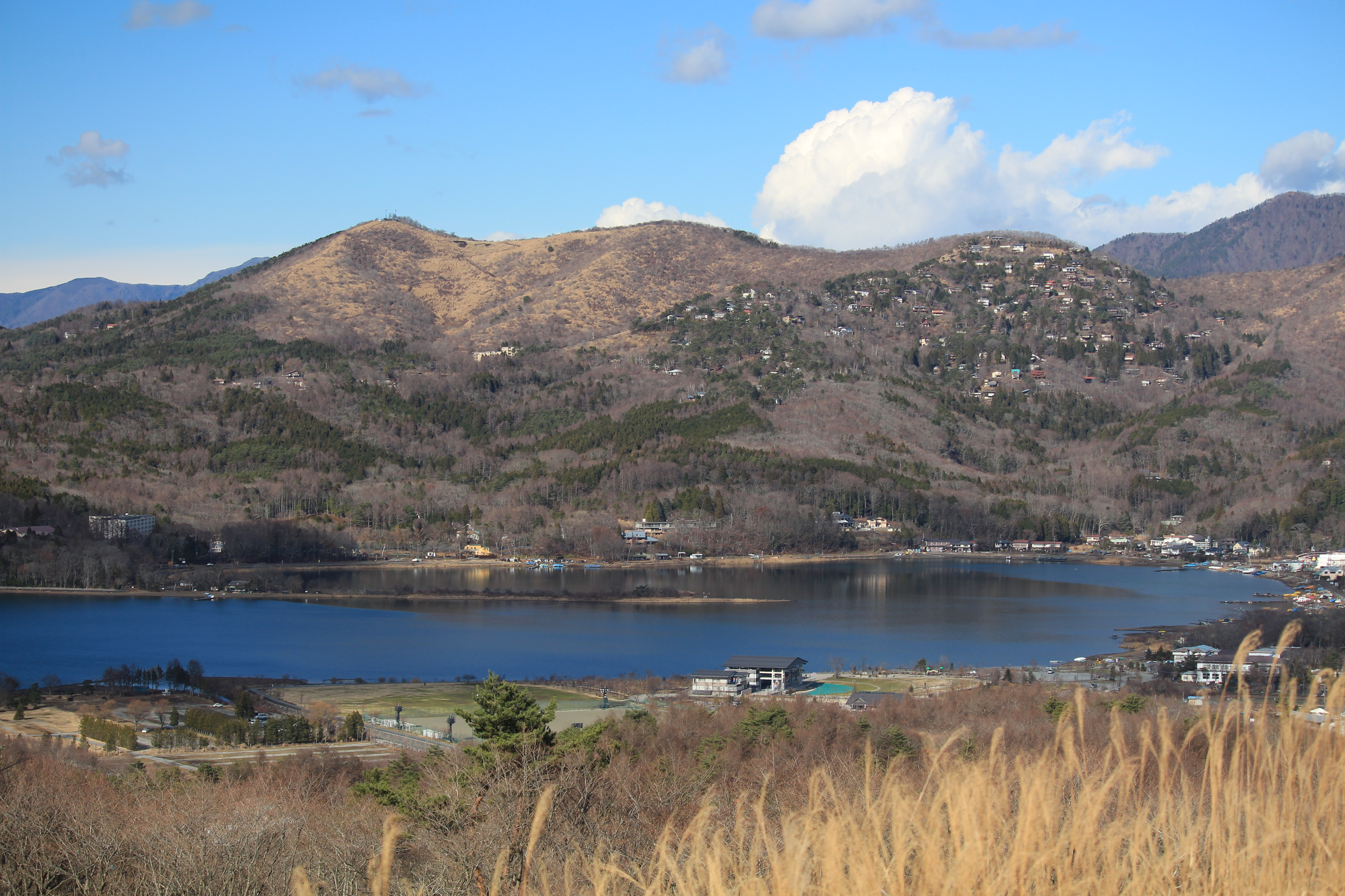 Mount Ohira and Fuyodai in Yamanakako village, Yamanashi prefecture, Japan.